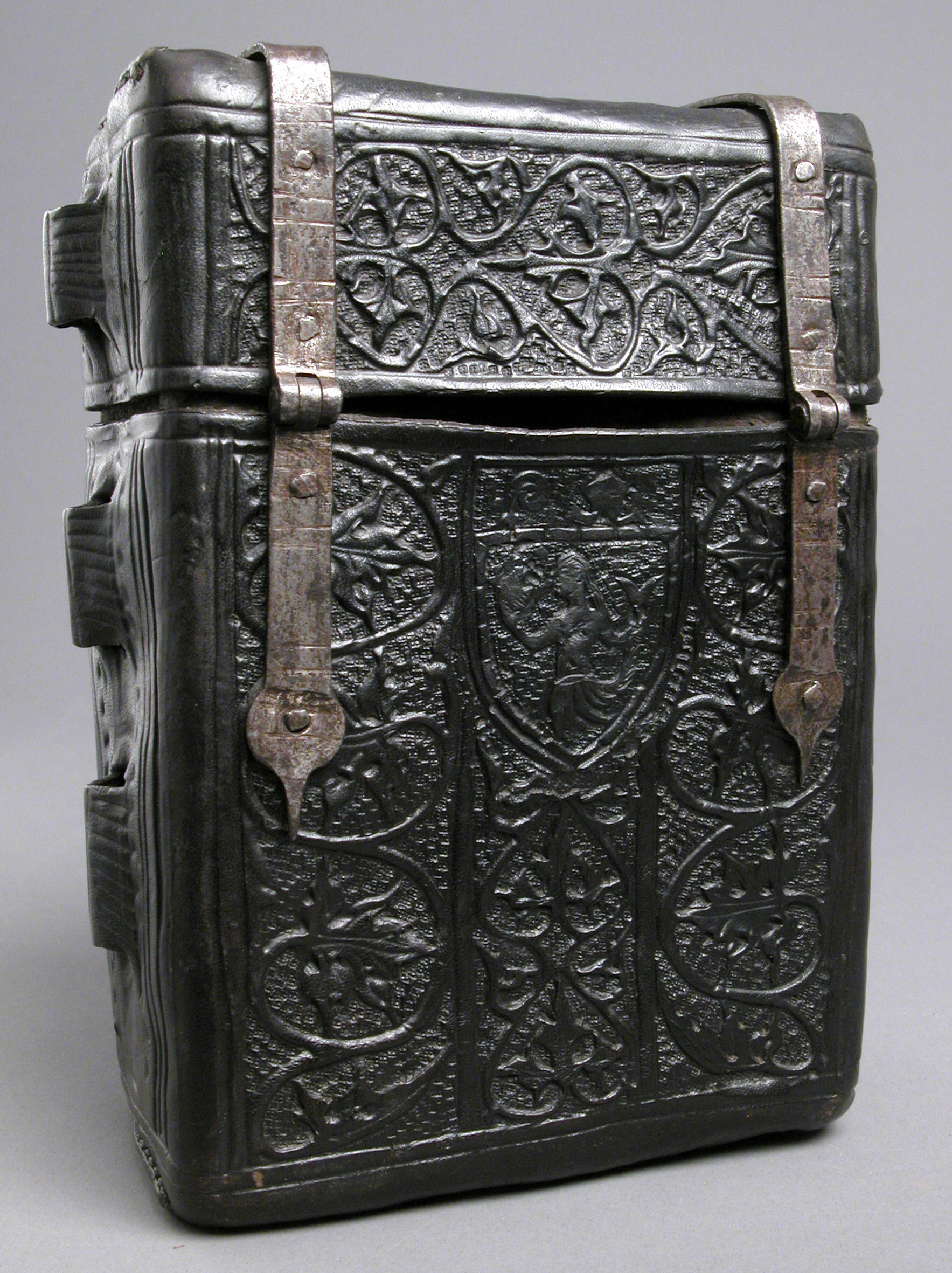 French (?); Book case; Leatherwork